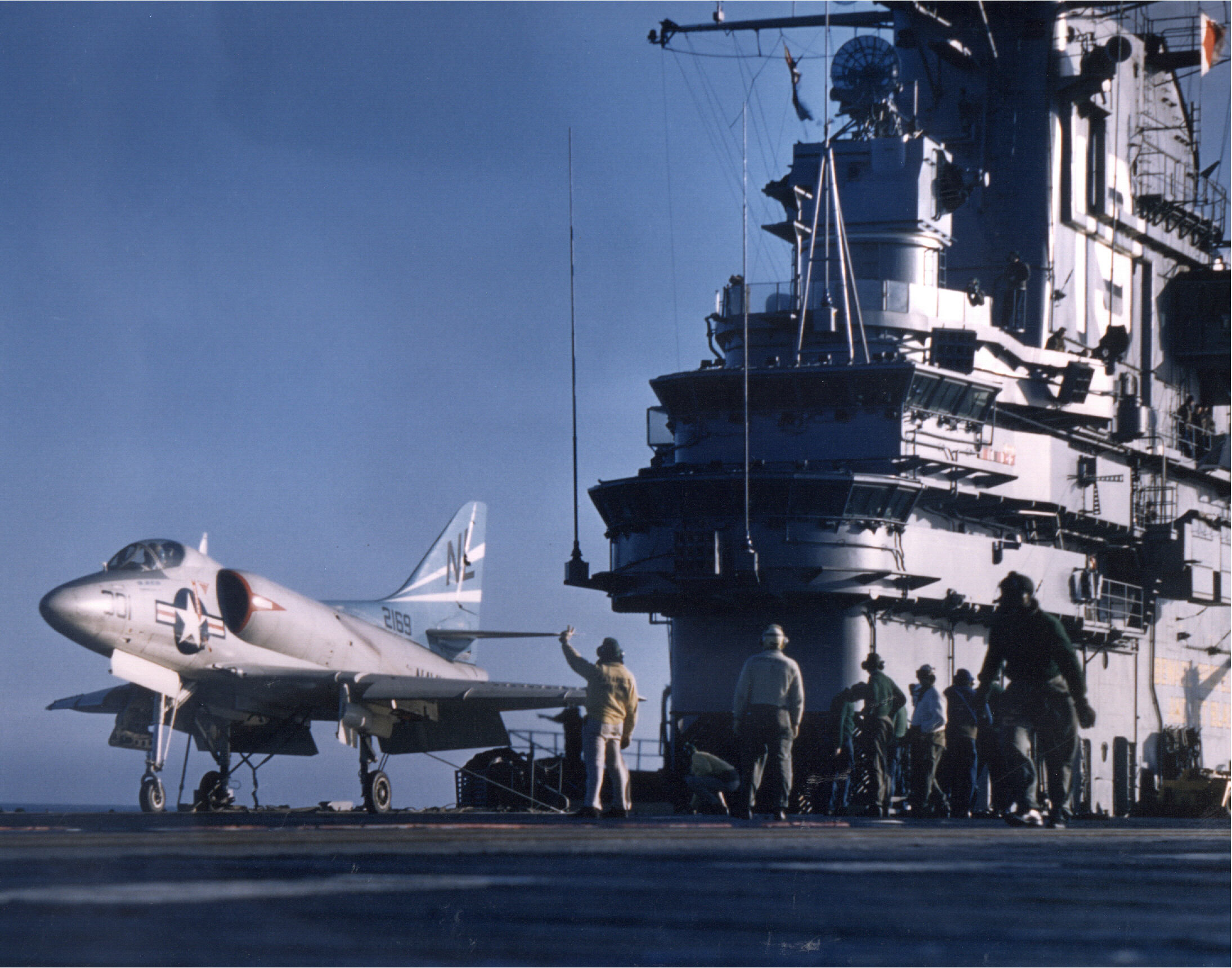 A U.S. Navy Douglas A4D-1 Skyhawk (BuNo 142169) from attack squadron VA-153 Blue Tail Flies on the starboard catapult of the aircraft carrier USS Hancock (CVA-19). VA-153 was assigned to Carrier Air Group 15 (CVG-15) aboard the Hancock for a deployement to the Western Pacific from 15 February to 2 October 1958.